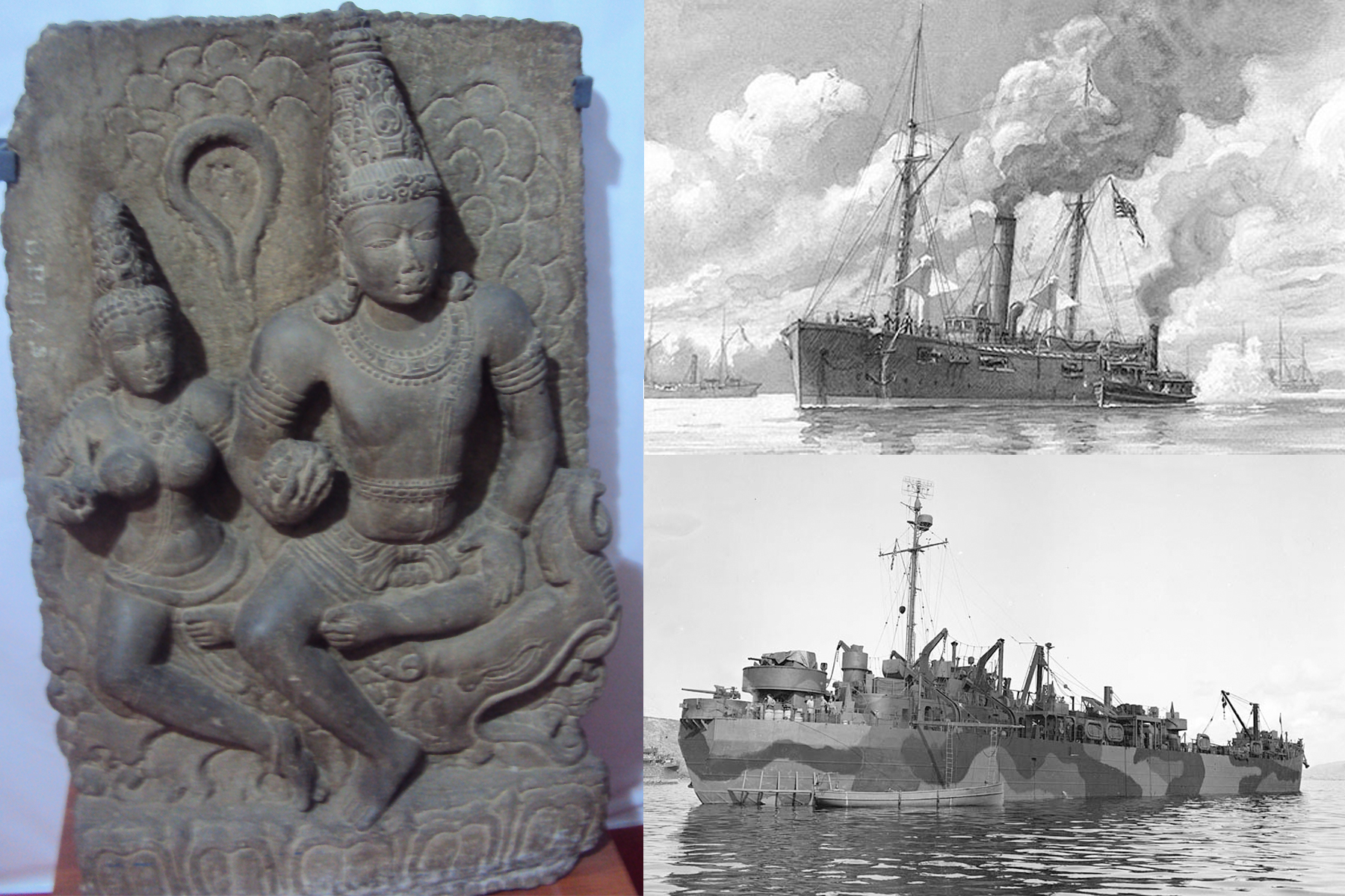 The USA on two different occasions in the past had commissioned warships named Varuna - named after the Indian God of the Ocean. Clock-wise from right. 1. USS Varuna in 1862 2. USS Varuna in 1943 3. Varuna with his consort Varuni.